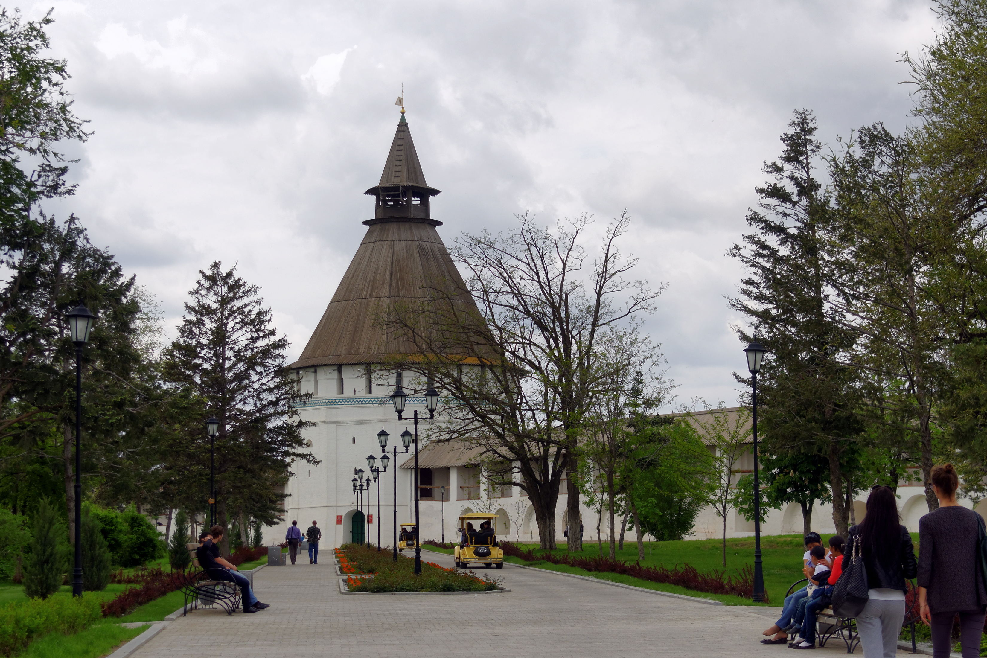 Astrakhan. Kremlin